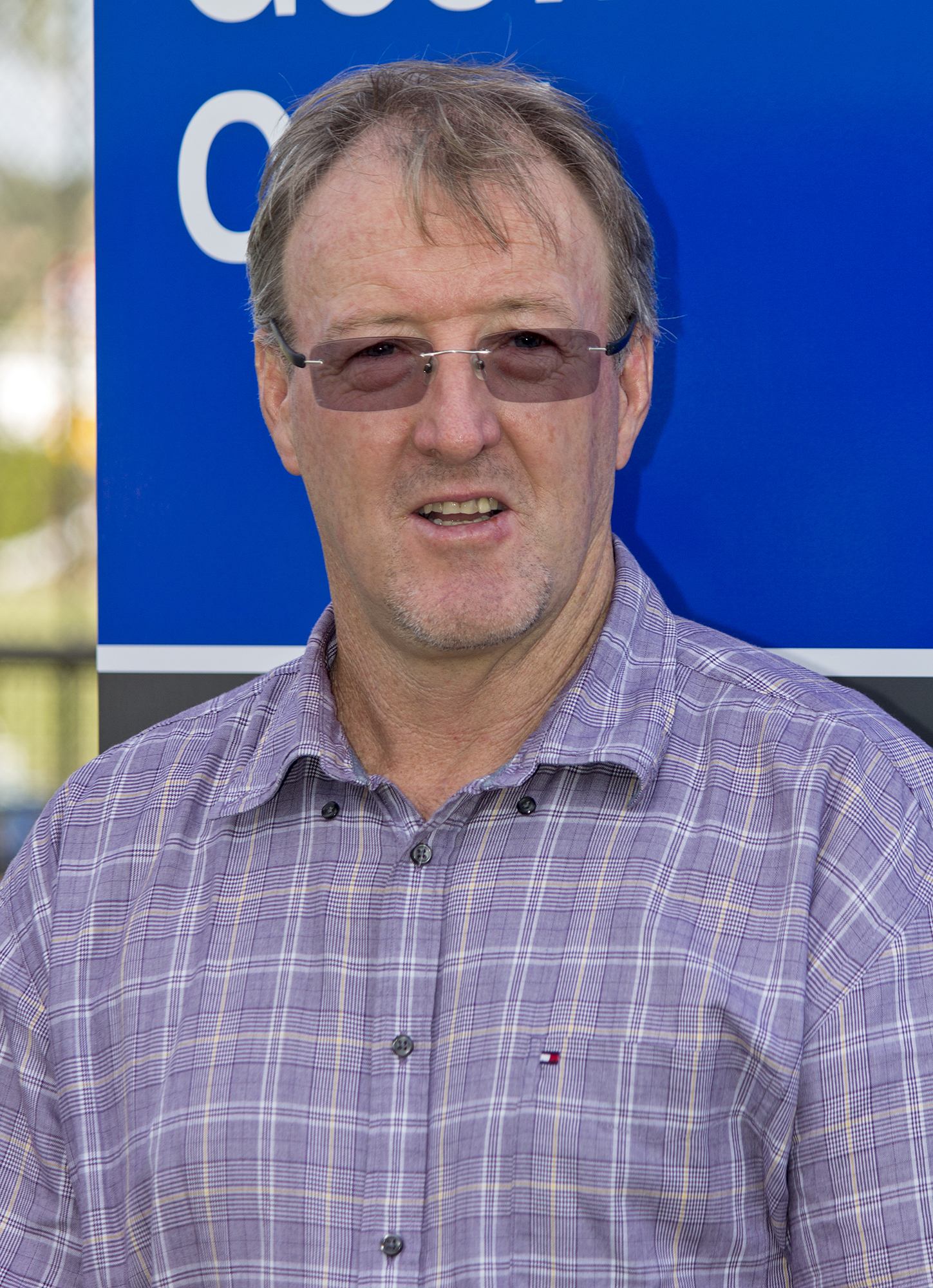 Geoff Lawson at the official naming at Bolton Park in Wagga Wagga.